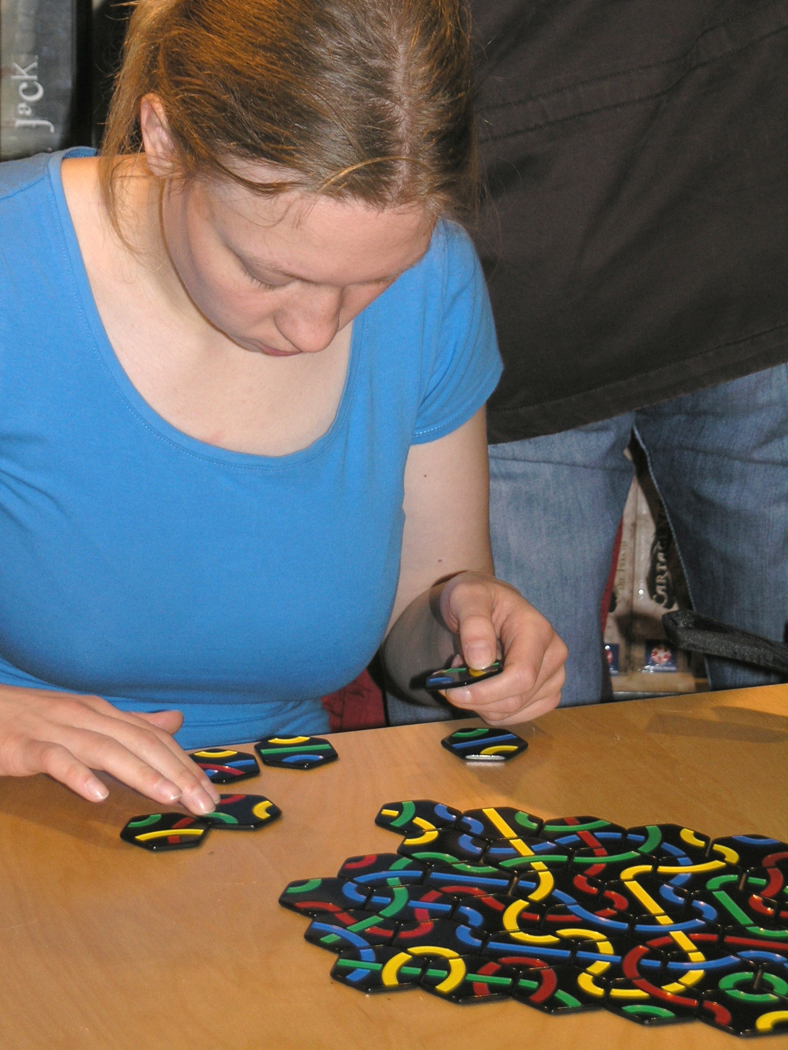 Tantrix player at the Spiel 2008 in Essen